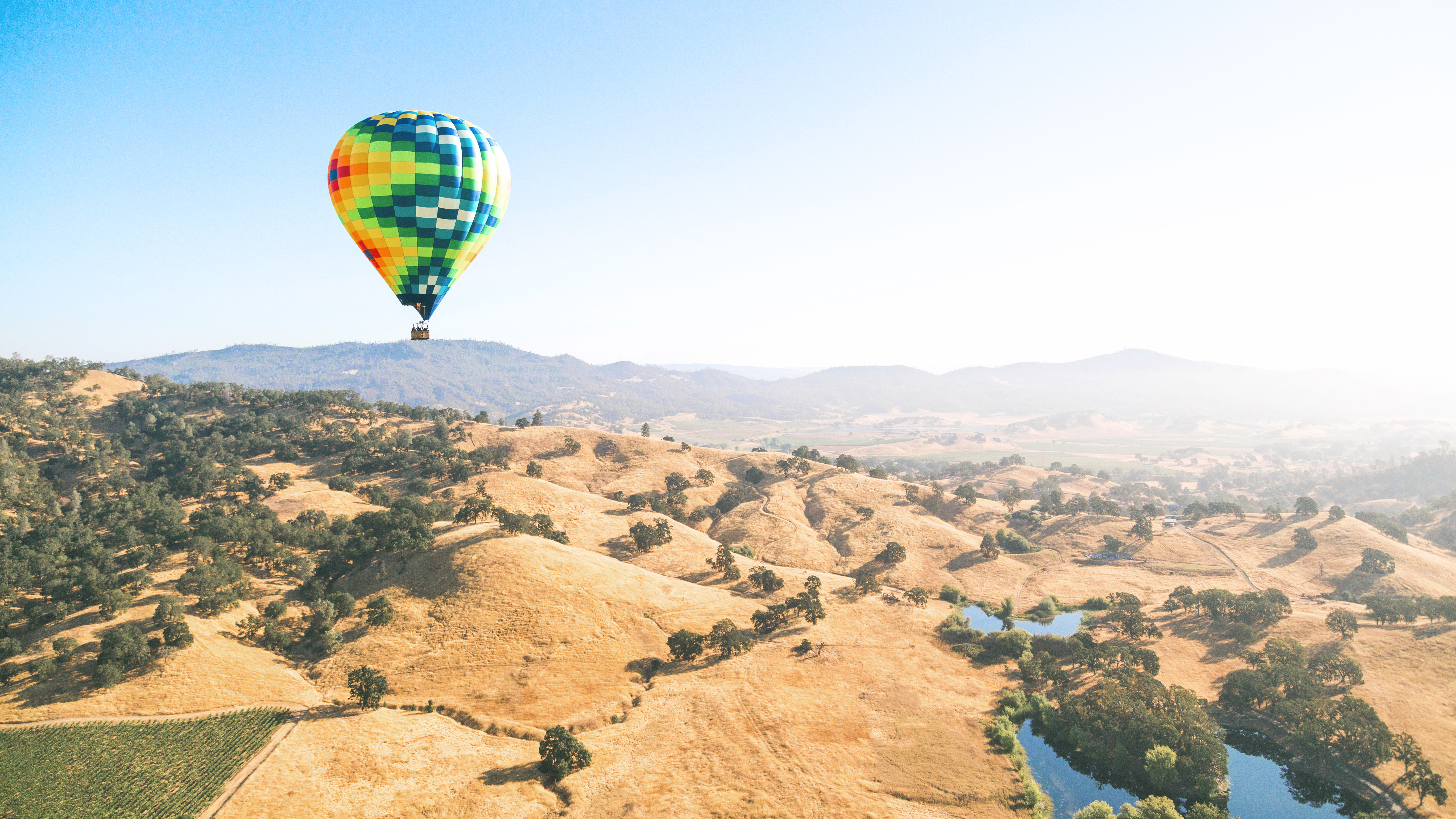 Napa Valley, United States